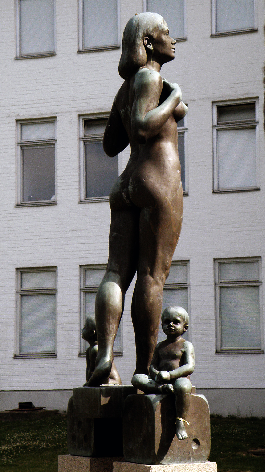 Dice throw.Bronze statue by Bengt-Inge Lundqvist, 1980. A woman standing in the nude flanked by two toddlers seated on a pair of dice. Kungsladugård, Gothenburg, Sweden.